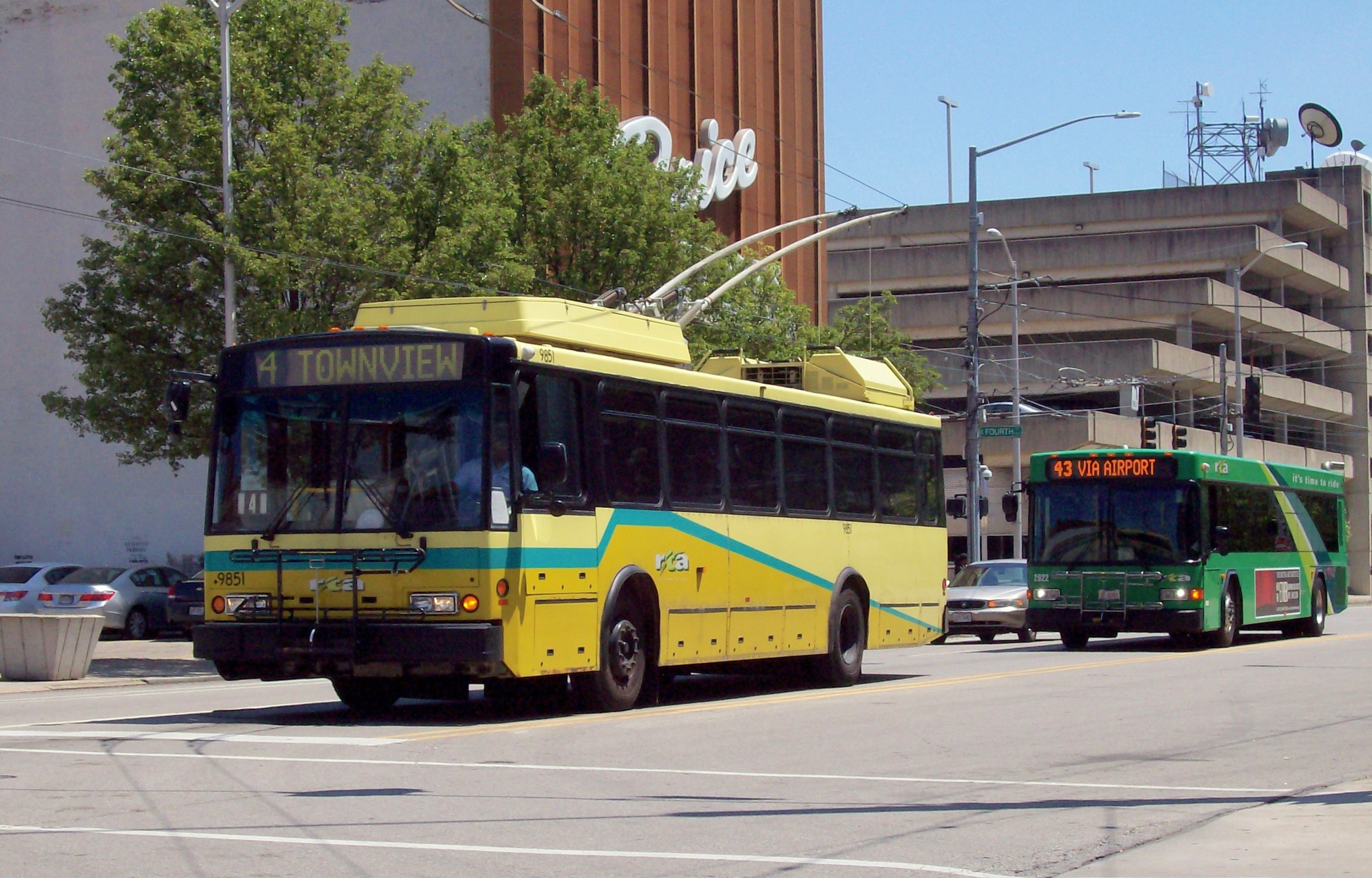 Dayton trolleybus 9851, a 1999-built ETI 14TrE2, northbound on Jefferson Street north of 4th Street in downtown, with a Gillig diesel bus behind